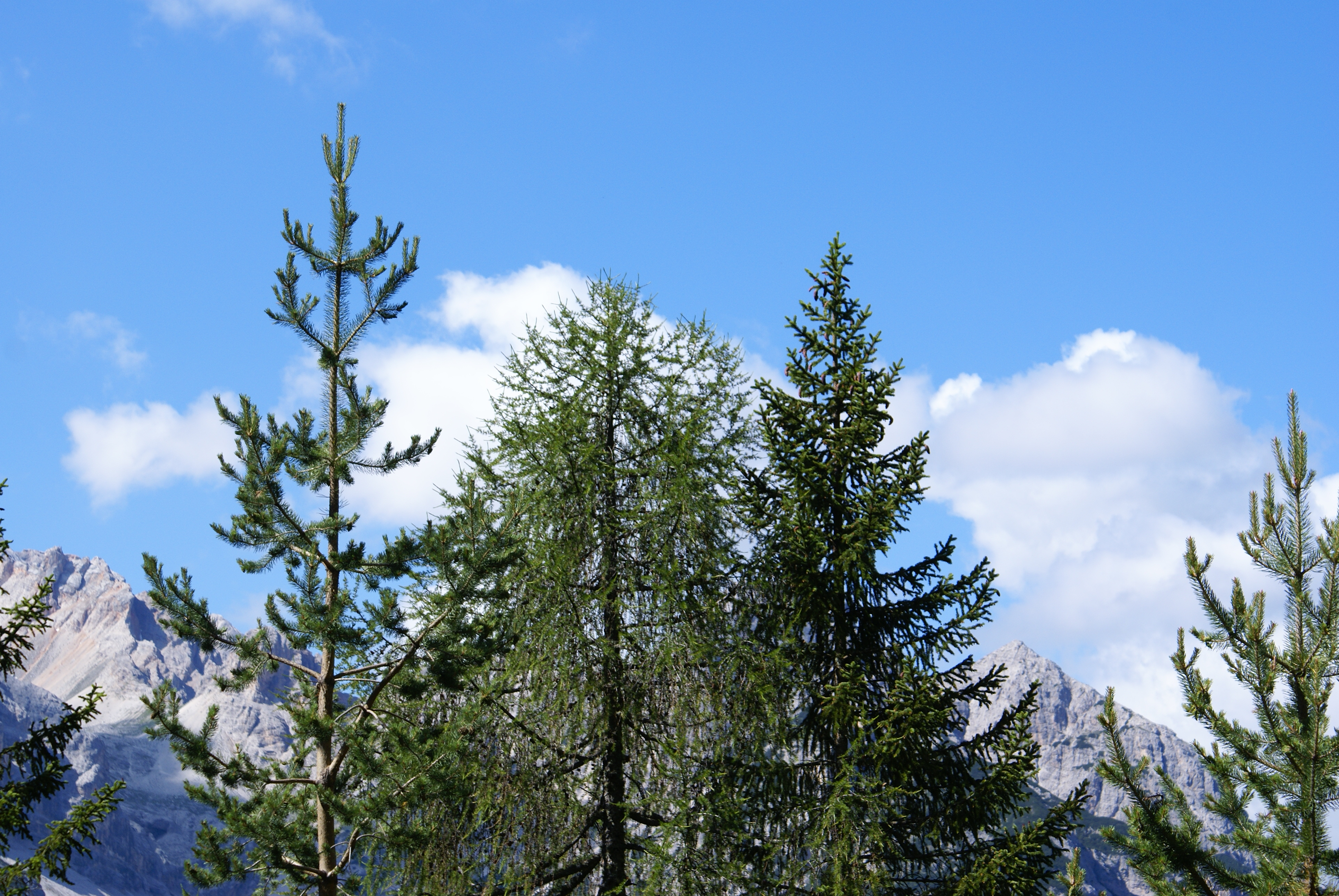 Three pinophytes in the Dolomite mountains north of Cortina in Italy